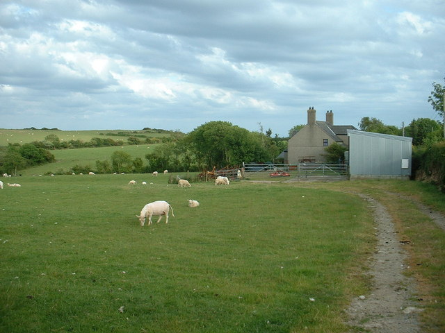 Ty Newydd farm